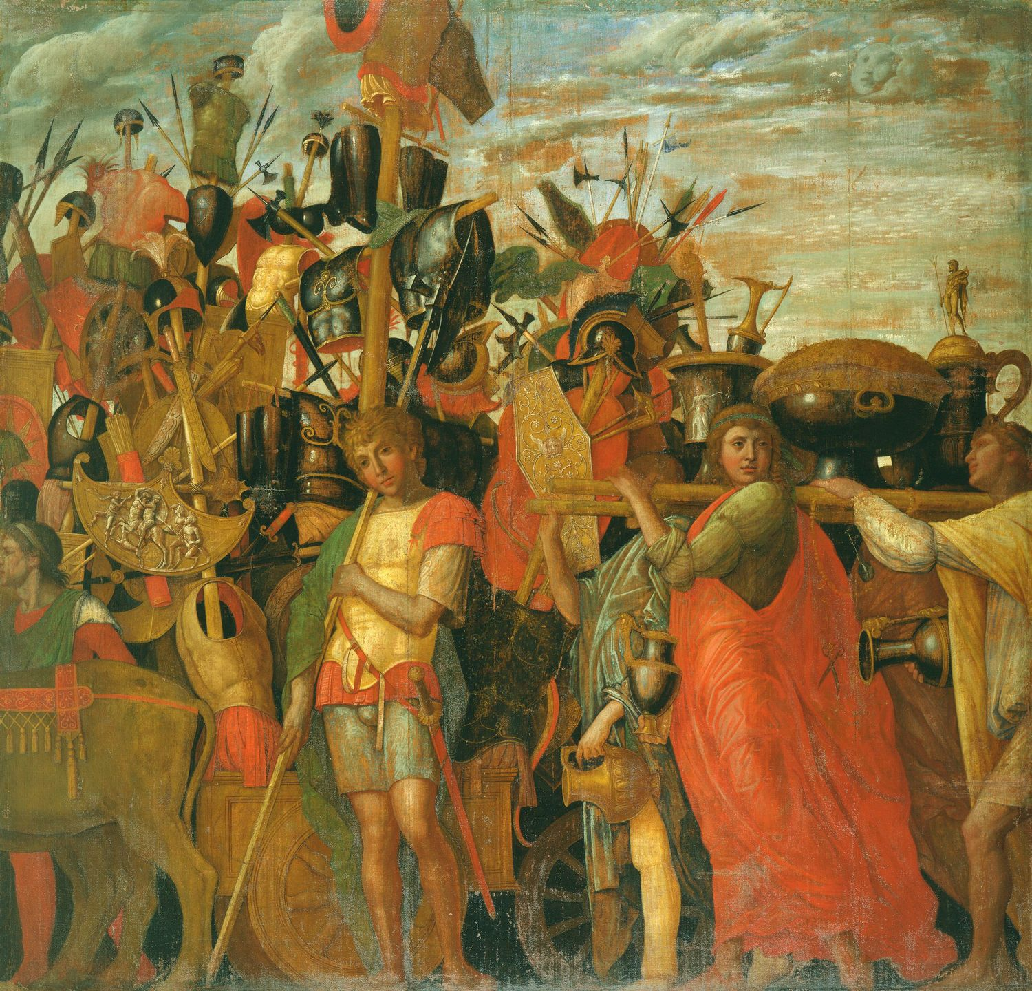 The Triumphs of Caesar III: bearers of trophies and bullion, Royal Collection, Hampton Court Palace